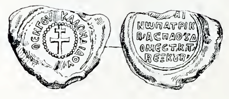 Seal of [Marti]nos (?), patrik[ios], b[asilikos] a'[prōto]spath[arios] and domest[ikos] t[ōn] b[asilikōn] exkoub[itōn]